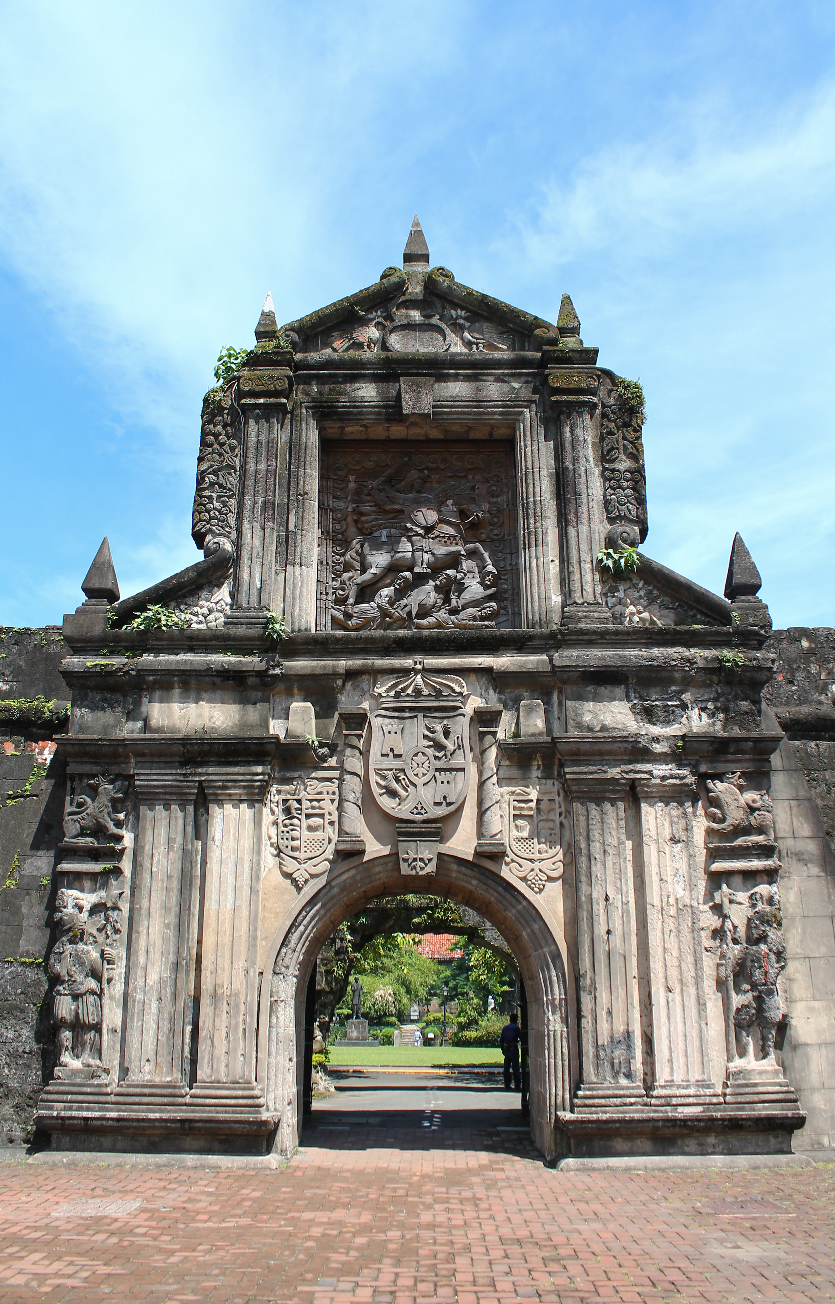 Gate of Fort Santiago — Intramuros, in Manila, the Philippines. Gate was built in 1714, rebuilt after WW II damage.